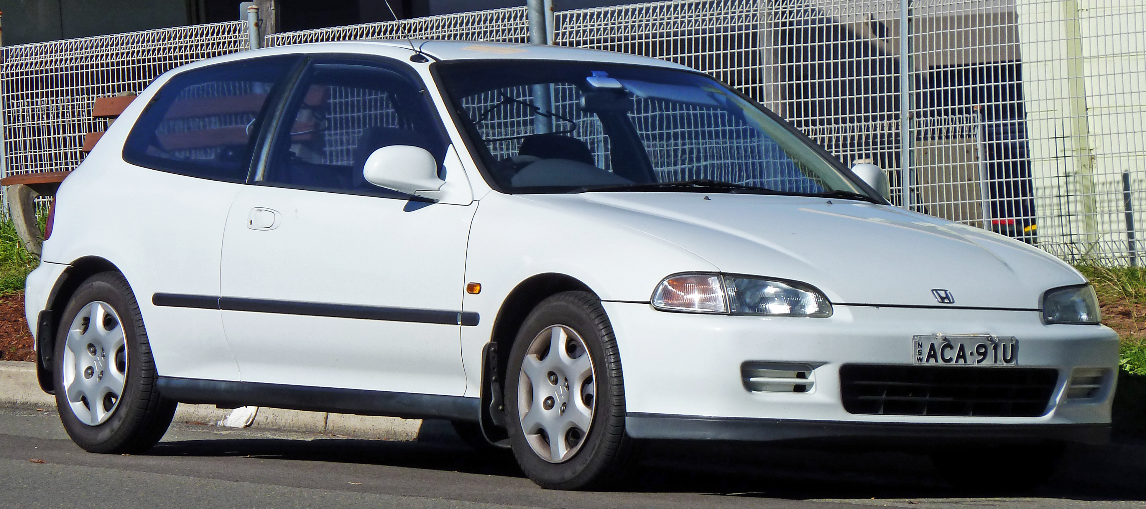 1994 Honda Civic GLi 3-door hatchback. Photographed in Cronulla, New South Wales, Australia.